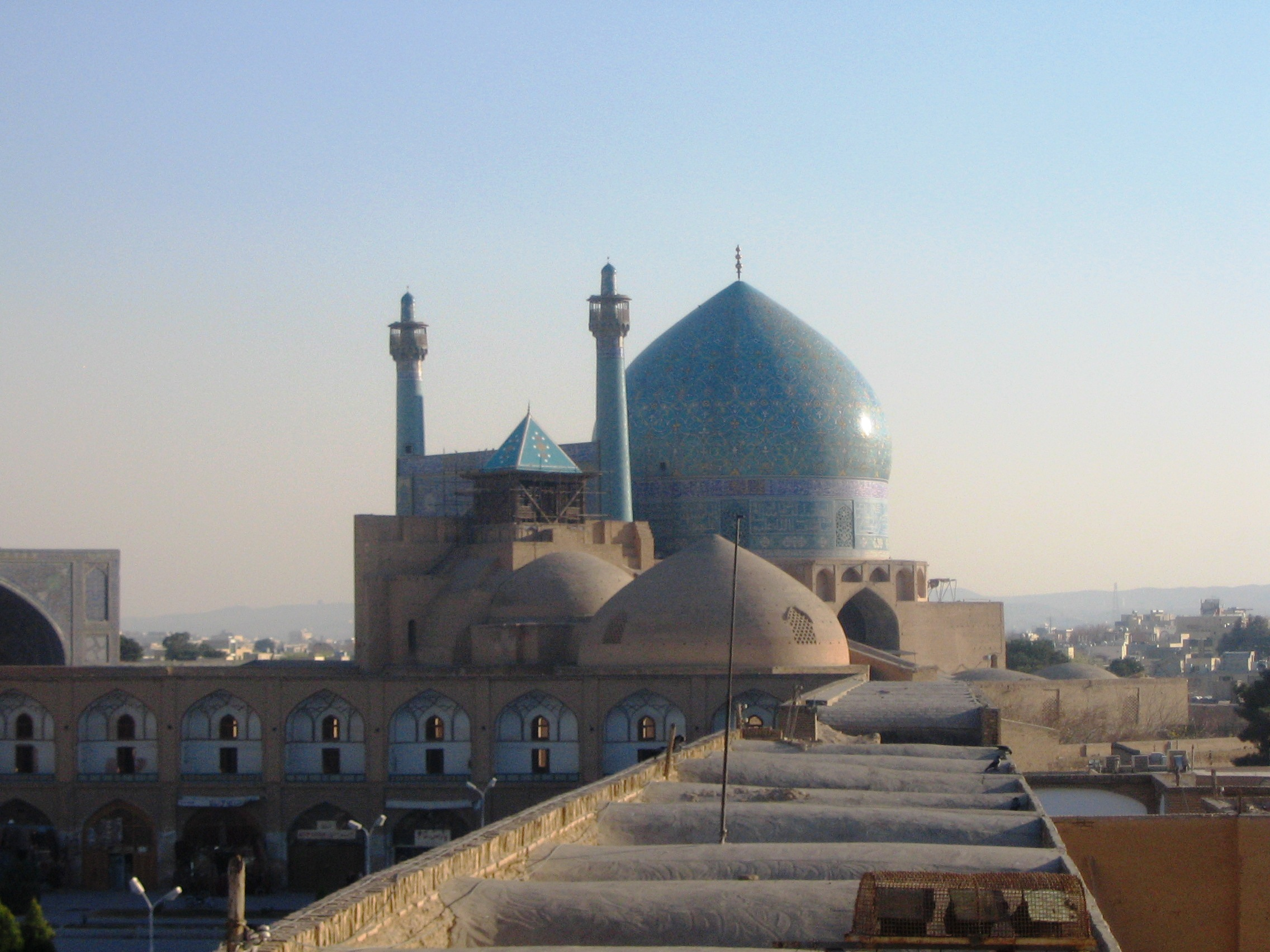 Shah Mosque from Ali Qapu Palce in Esfahan, Iran.